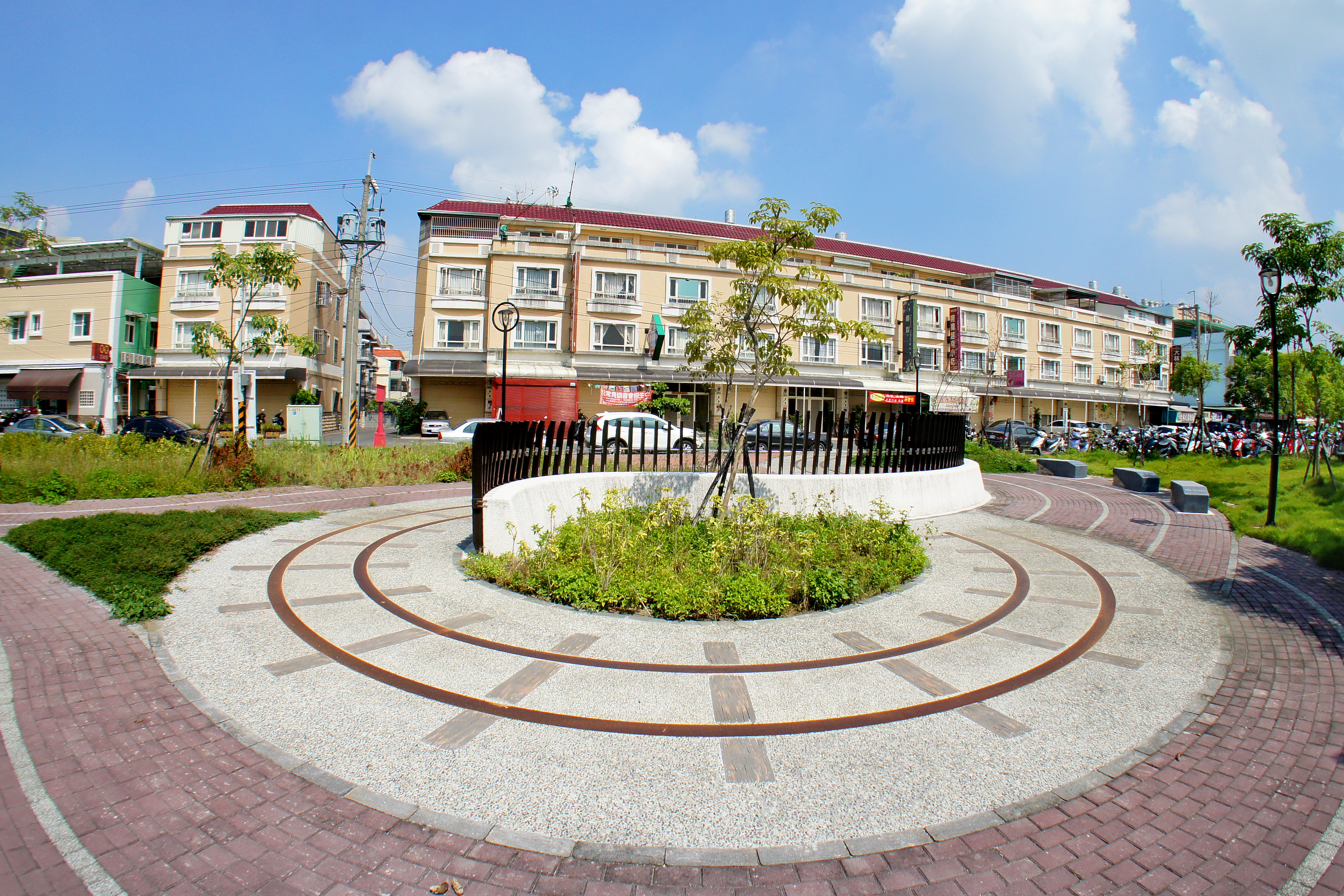 A park in the Jilin Village, Dalin Township, Chiayi county, Taiwan.